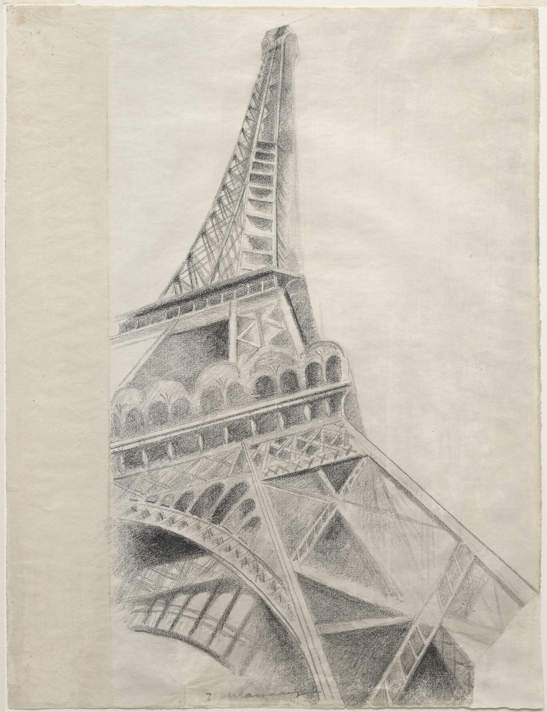 This file was provided to Wikimedia Commons by the Solomon R. Guggenheim Museum as part of a cooperation project. The Solomon R. Guggenheim Museum provides images depicting artworks which are public domain or licensed under a free license.